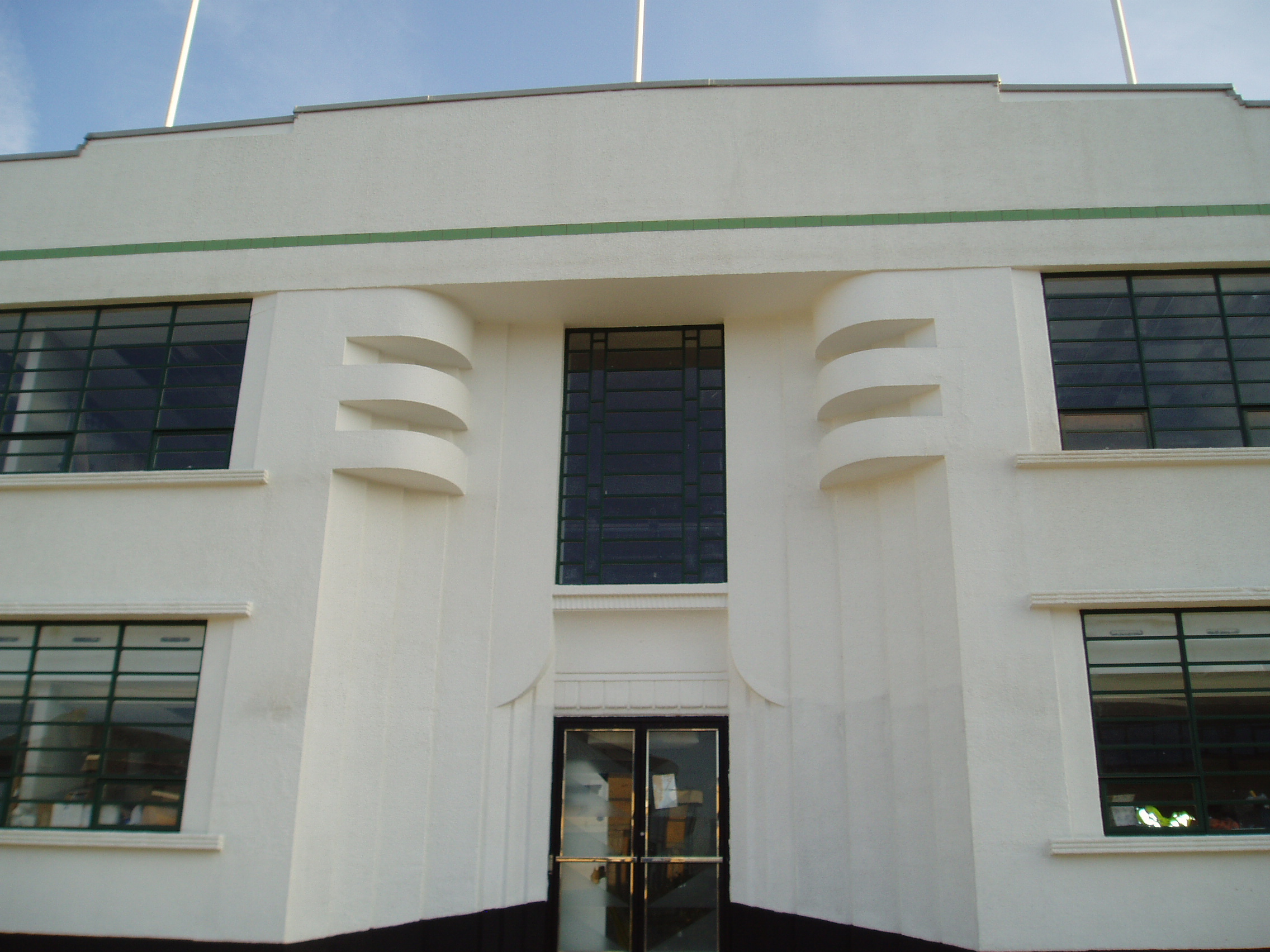 The former Coty Perfume Factory (1932-3) by Wallis Gilbert, Great West Road, London. Photo taken on a Twentieth Century Society tour of Brentford on 27th September 2008.